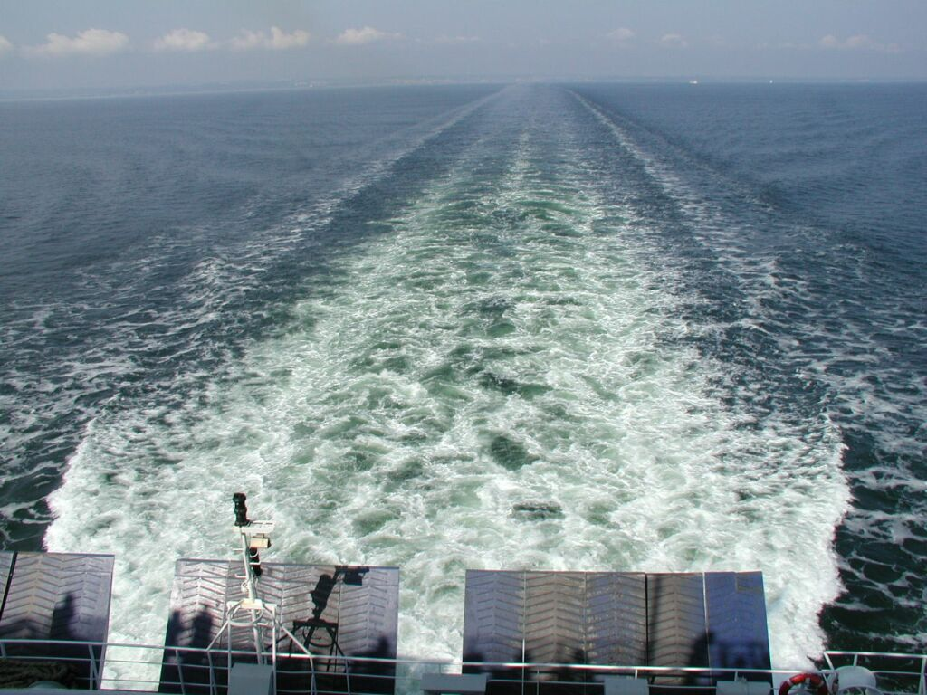 A wake behind a ferry (Baltic Sea)